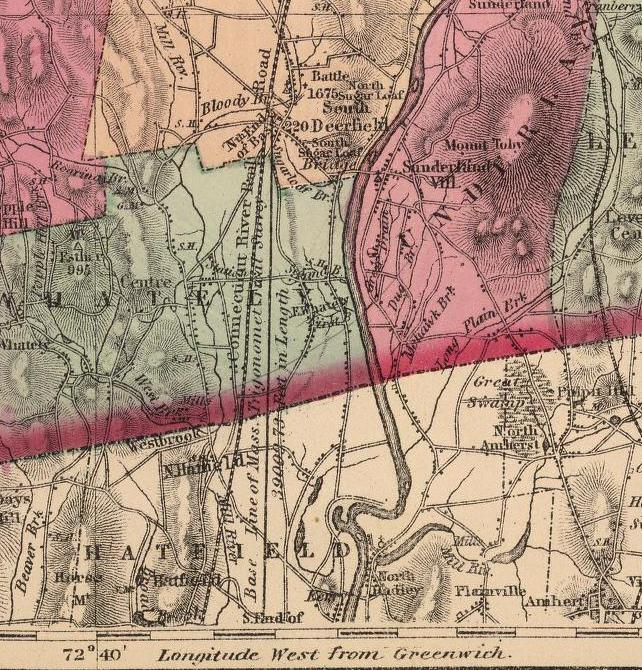 Map showing the location of the "Borden Base Line" running north/south between South Deerfield and Hatfield, Massachusetts, USA, here indicated as the "Base Line of the Mass. Trigonometrical Survey". This was the baseline for the first geodetic survey in the United States. This line was surveyed in 1831 to an accuracy of better than 1 part in 5 million by Simeon Borden.